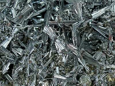 Hutchinsonite Locality: Quiruvilca Mine (La Libertad Mine; ASARCO Mine), Quiruvilca District, Santiago de Chuco Province, La Libertad Department, Peru (Locality at ) Size: 4.5 x 4.4 x 2.2 cm. This is one of the richest examples of the species out there. It is by far the richest piece I have seen for this rare thallium-rich sulfosalt. Not the biggest, but the most richly crystallized. It is composed of extremely robust, diverging sprays of acicular hutchinsonite crystals, many doubly terminated. The crystals, to .75 cm across, are lustrous, dark gray, and nearly cover the host matrix. This is an amazing specimen of the rare lead, thallium, sulpharsenide. From the collection of my mentor, Carlton Davis. Acquired in the early 1980s from dealer Gary Hansen.